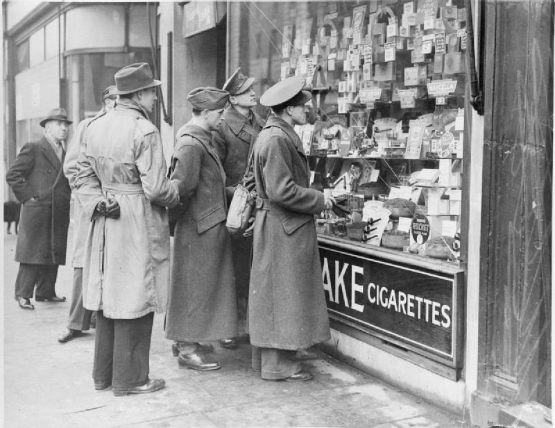 Allied Soldiers Like London and London Likes Them- Overseas Troops in England, 1940 Czech soldiers and airmen look in the window of a tobacconist's shop at a display of cigarettes and tobacco, somewhere in London in 1940. They are joined by a few British civilians.